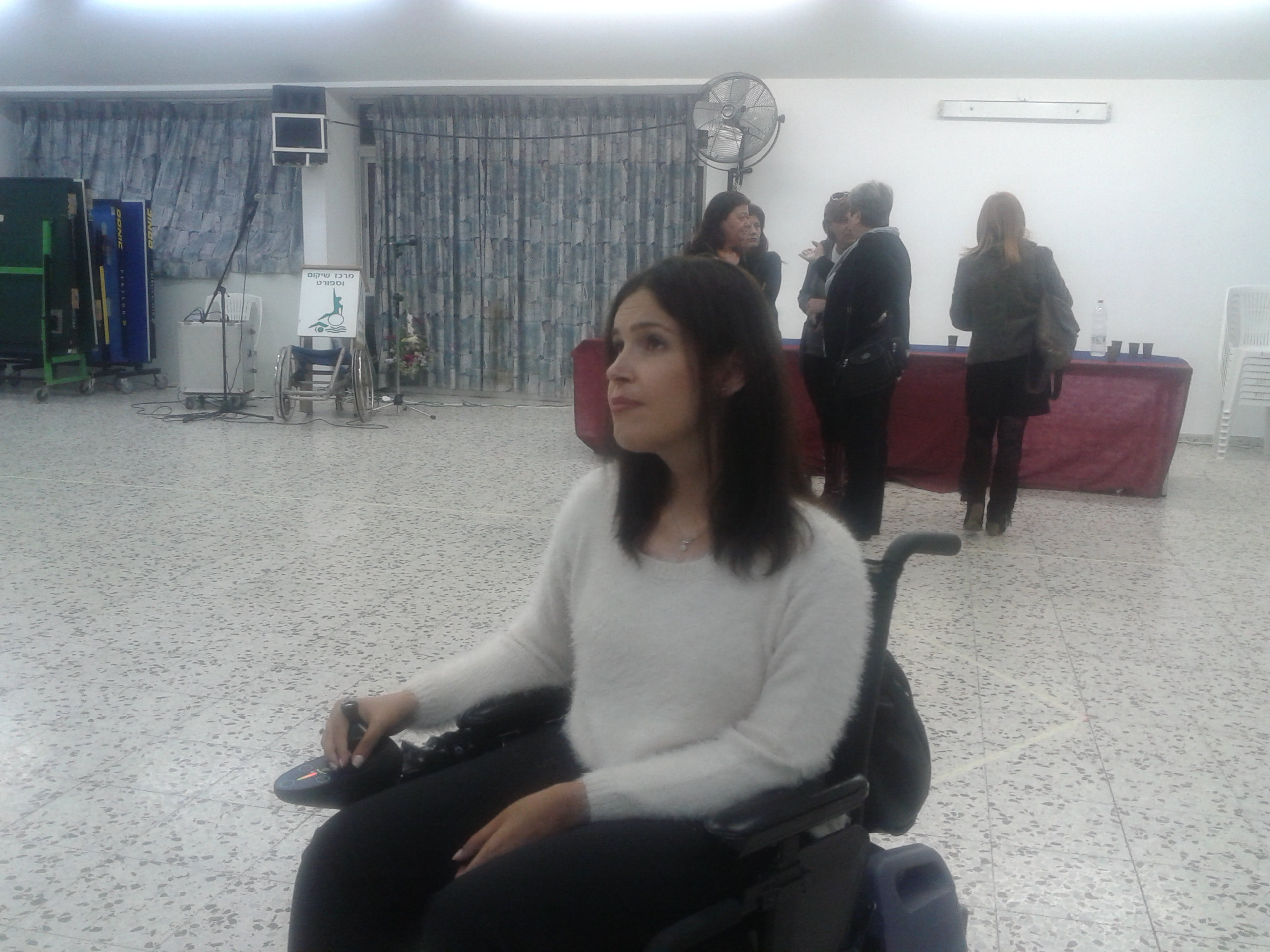 Karin Elharar in a wheelchair